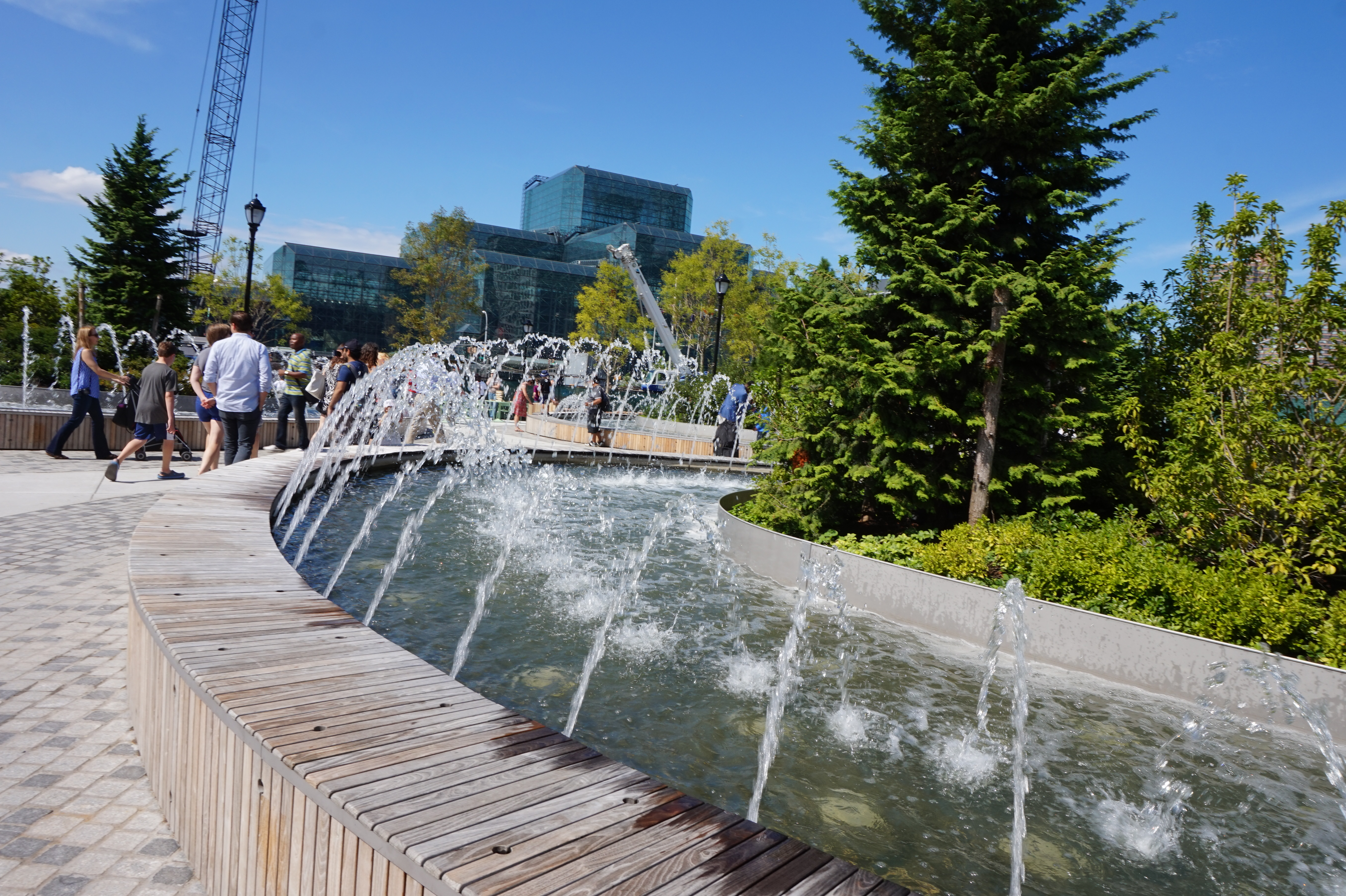 The First new subway station and section of line to open in 60 years.